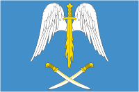 Arkhangelskoe (Krasnodar krai), flag